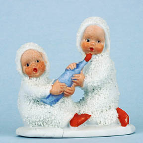 Photo of a 1920s snow baby, property of Mary Morrison